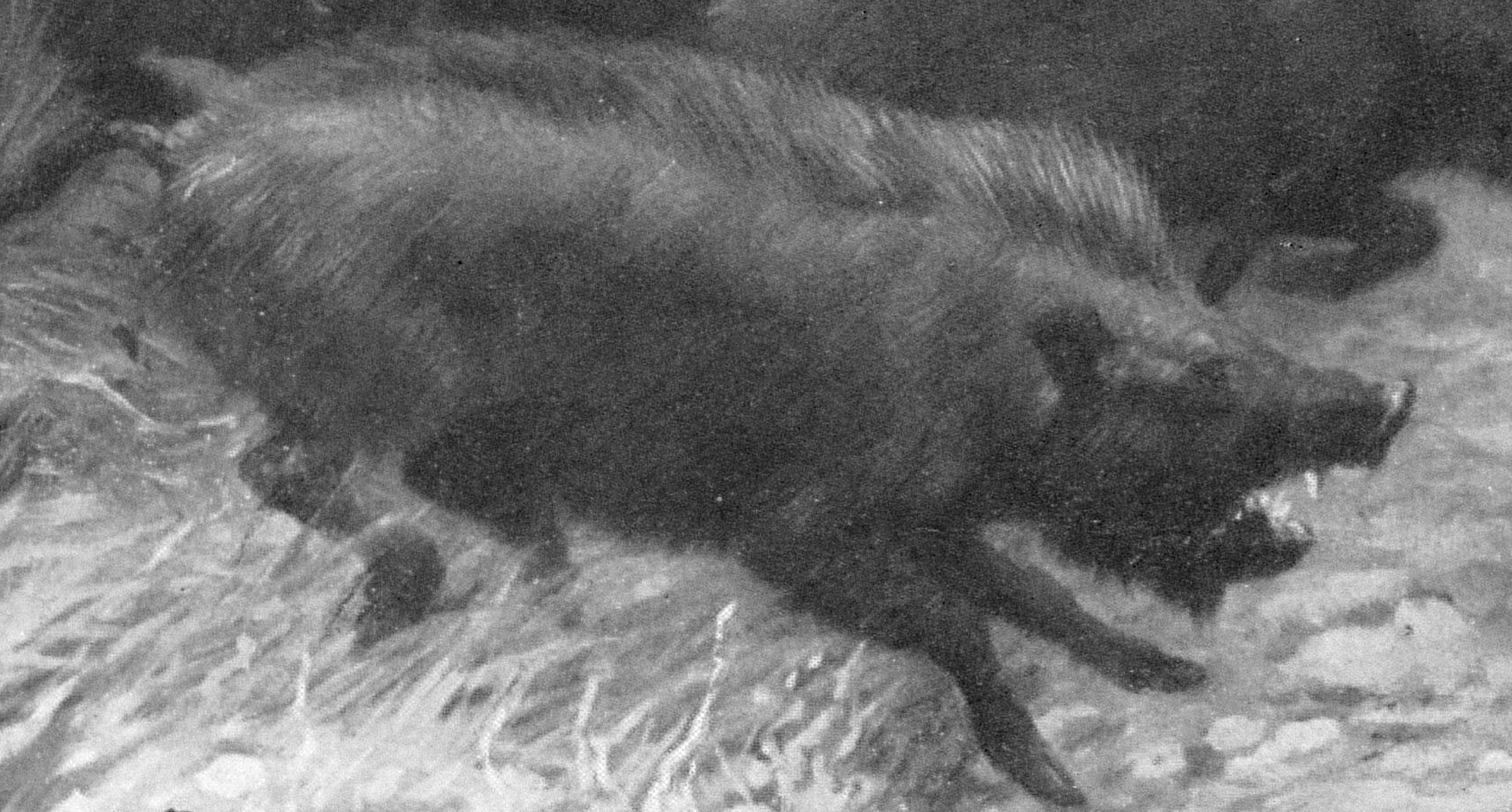 Crop of file in filename